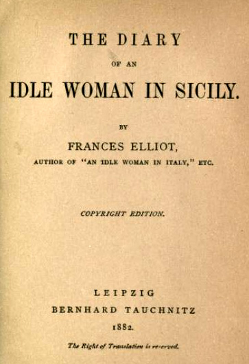 Description: Frontispiece of Diary of an Idle Woman in Sicily Author: Frances Minto Elliot (1820 – 1898) Publisher: Bernhard Tauchnitz 1882